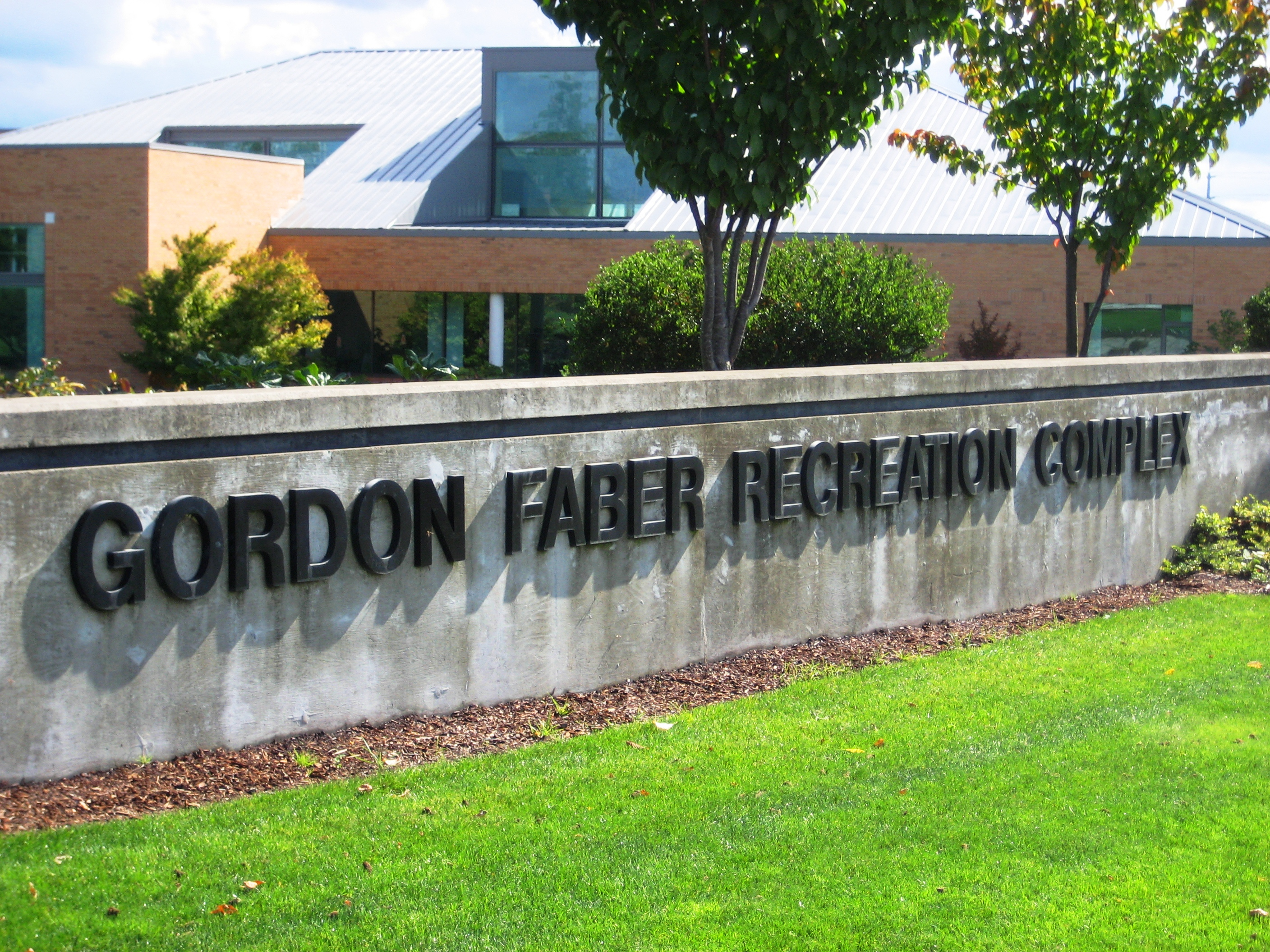 Entrance to the Gordon Faber Recreation Complex in Hillsboro, Oregon, USA.